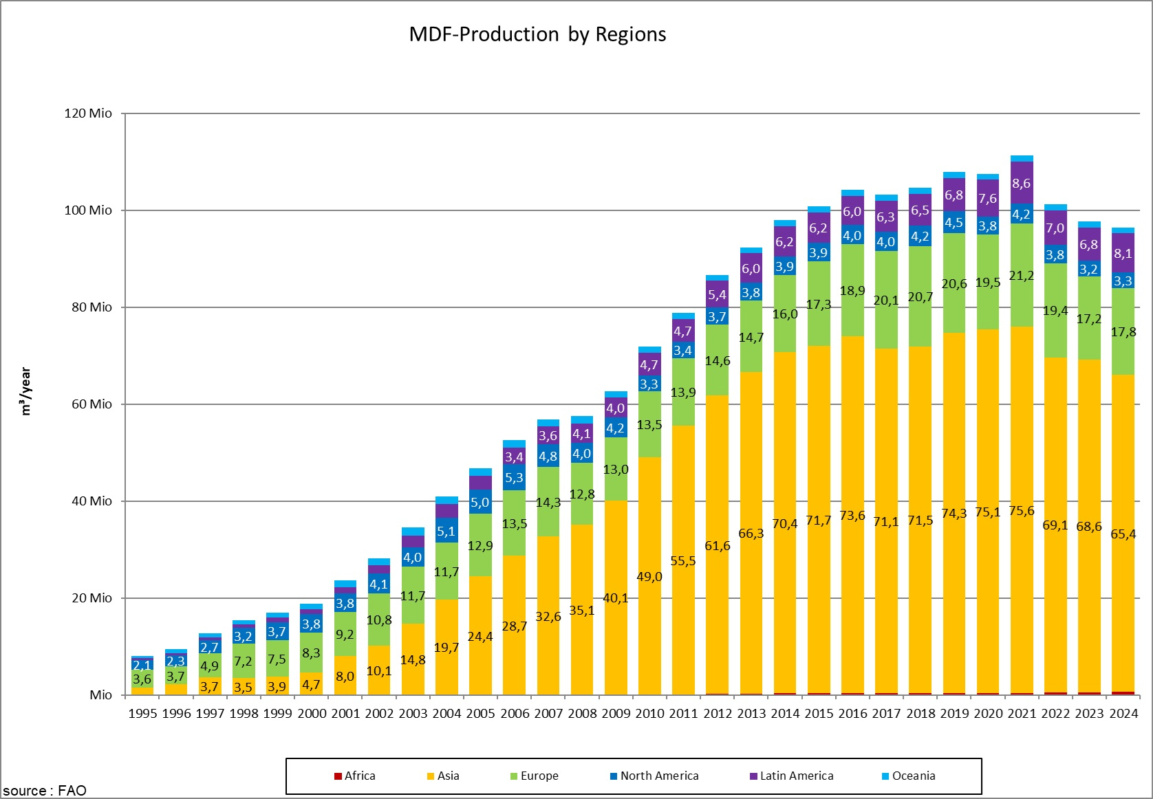 Development of the Worldwide Production of MDF by Regions